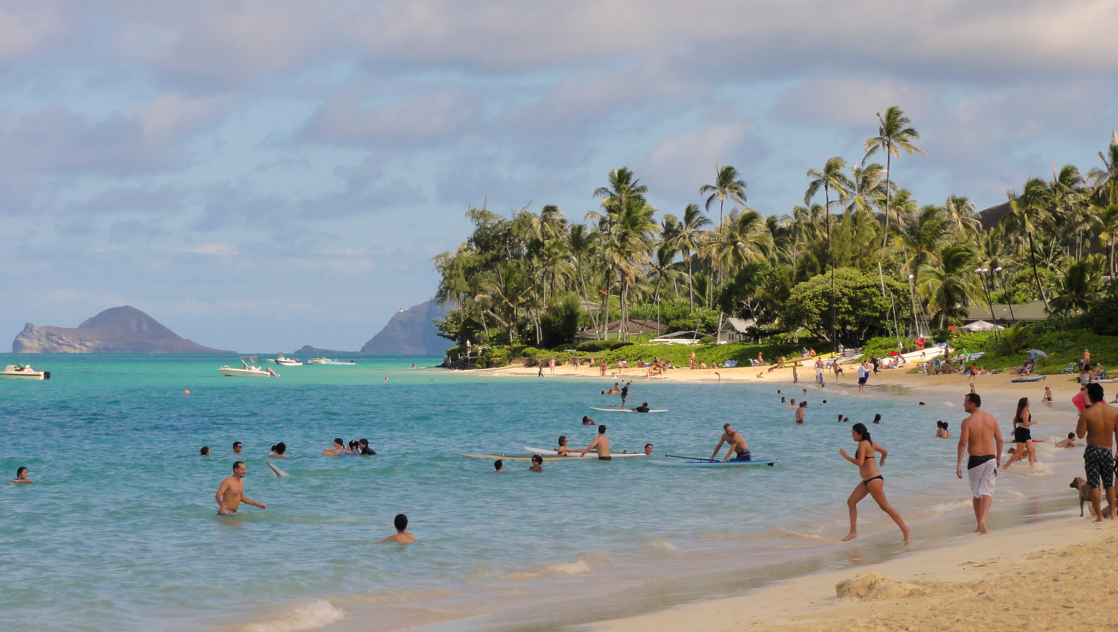 Beachgoers in Lanikai, Hawaii